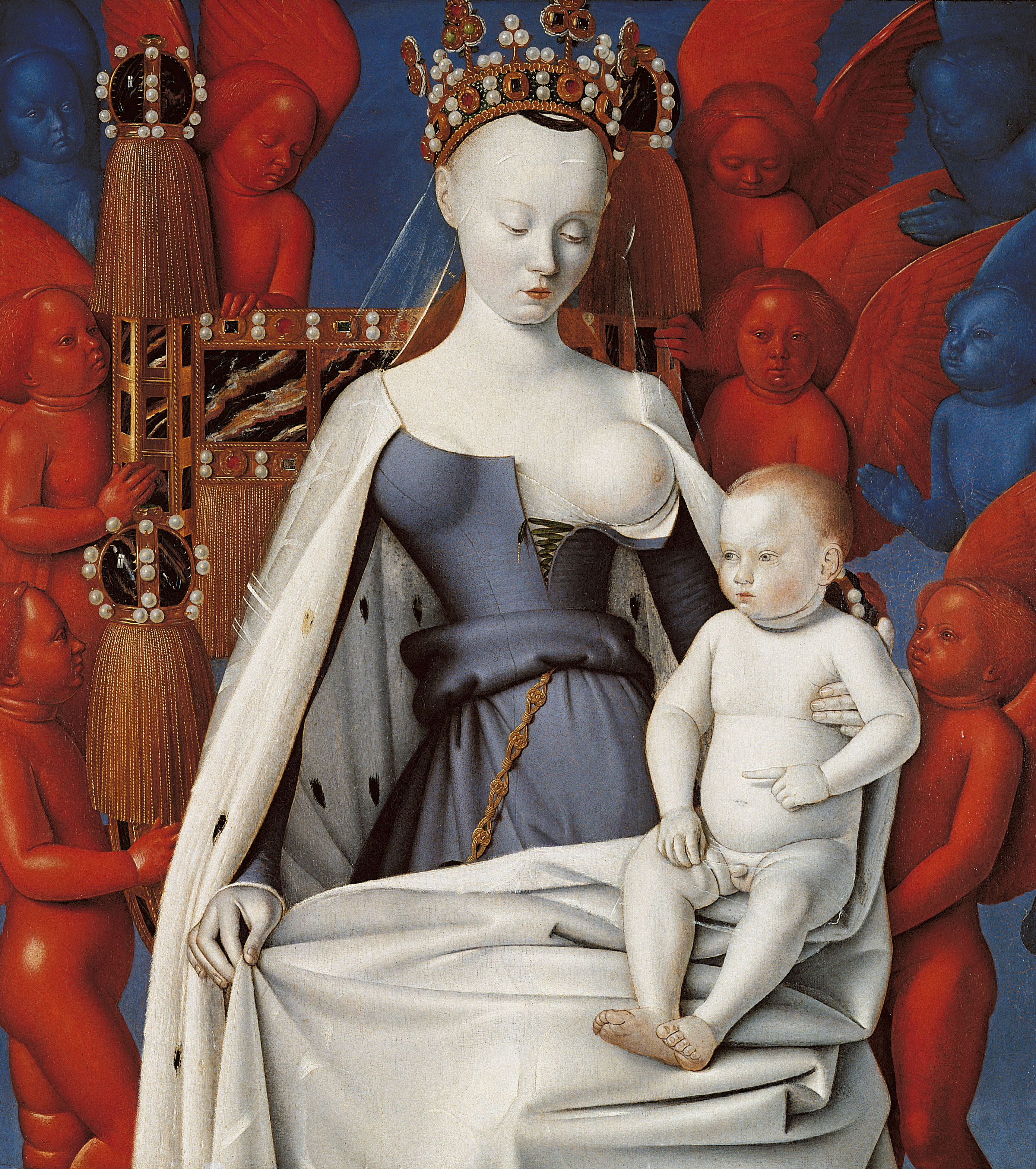 right panel of the Melun dyptich